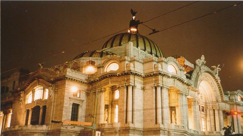 Mexico City - Palace of fine arts by night